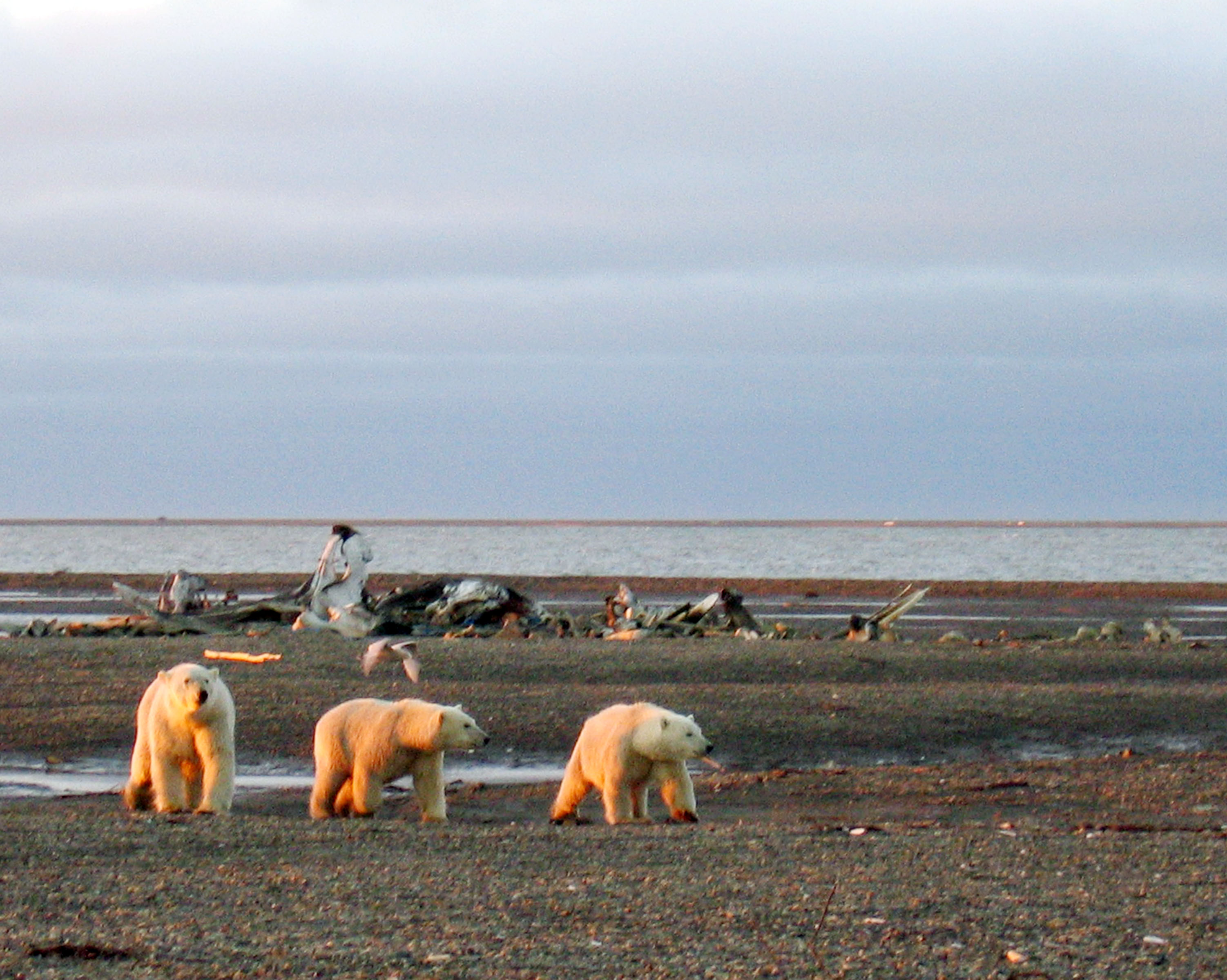 Three polar bears on the Beaufort Sea coast, Arctic National Wildlife Refuge